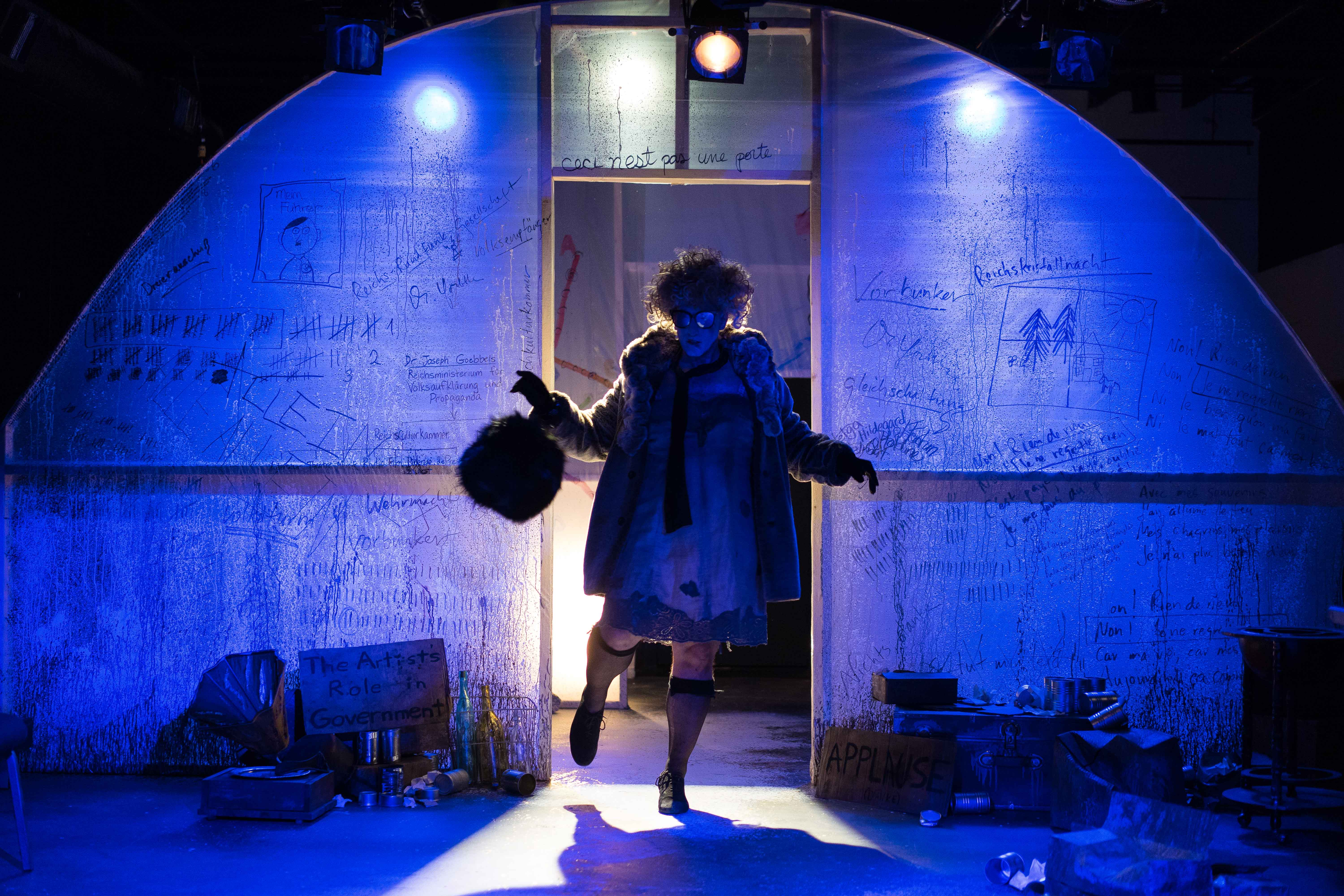 Jay Torrence as Leni Riefenstahl in Akvavit Theatre's production of 'Hitler on the Roof' by Rhea Leman, photo by Karl Clifton-Soderstrom